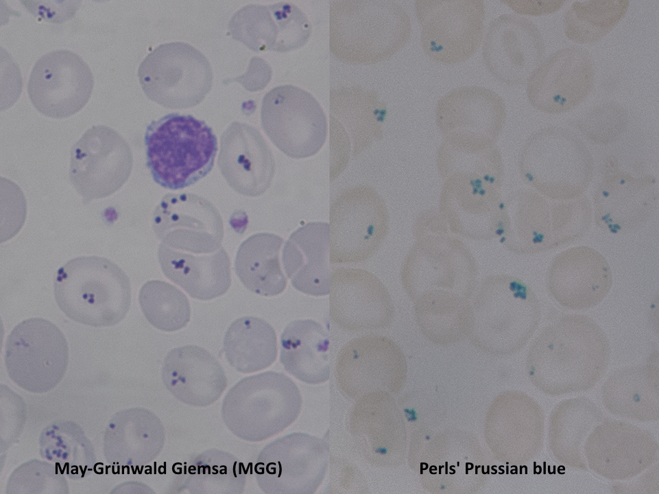 Pappenheimer bodies are abnormal granules of iron found inside red blood cells. When cells are stained with Giemsa or Wright stain, they appear as blue-purple granules adjacent to the cell membrane. Prussian blue stain can be used to demonstrate the presence of iron.